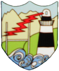 Crest of AntSean Phobail CLG club